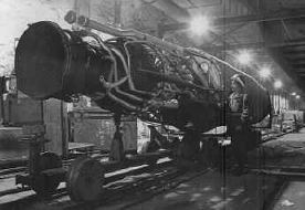 Underneath Kohnstein Mountain, about 250 [V-2] missiles were found in various stages of completion on the Mittelwerk assembly line (S.I. Negative #75-15871).[1] Additional English Captions: An A-4 at the "Central Works" in Niedersachswerfen after the Americans arrived on July[sic] 3, 1945[2]